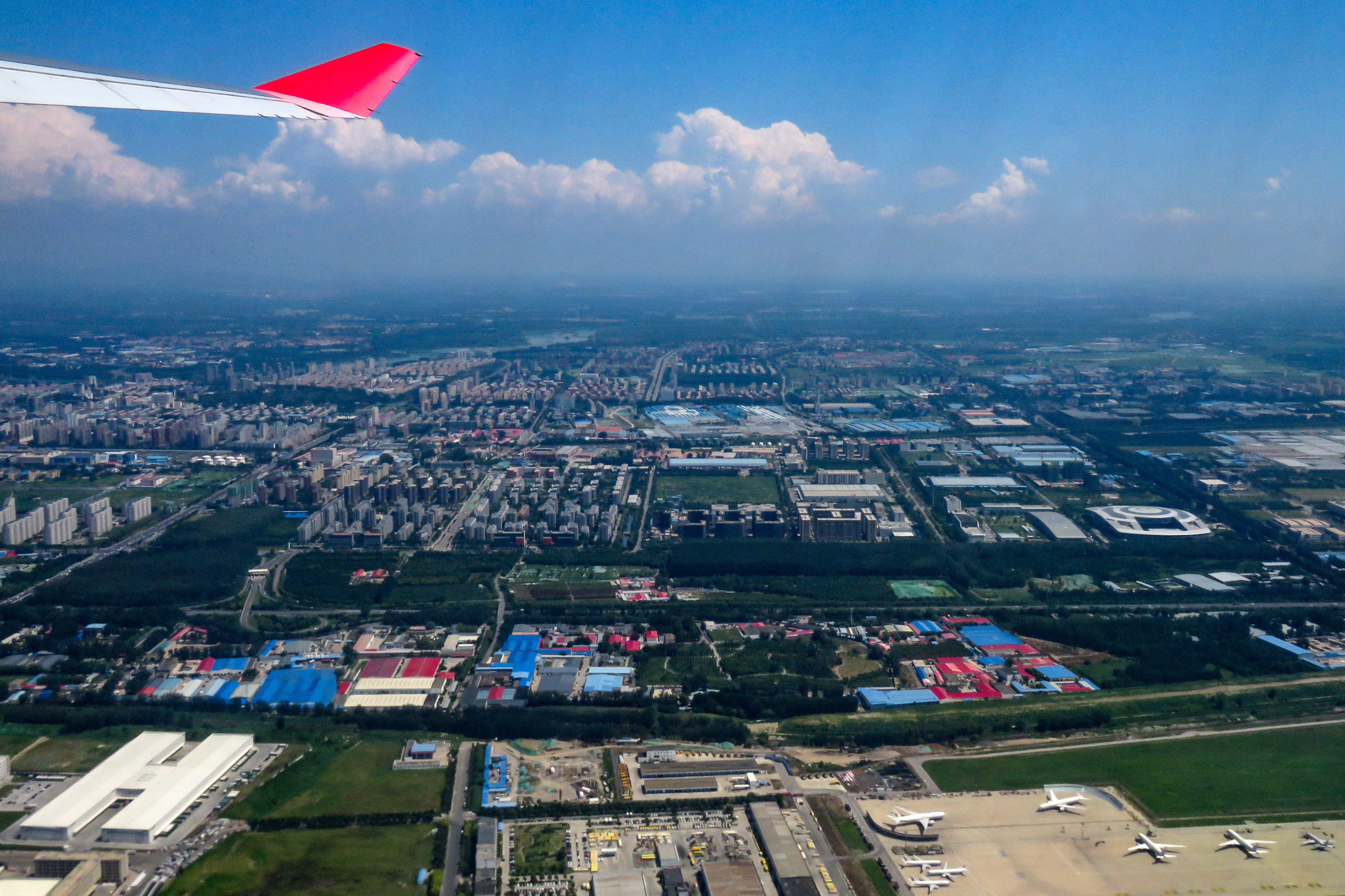 Taken during the takeoff phase of KA901 (from Beijing runway 36R).